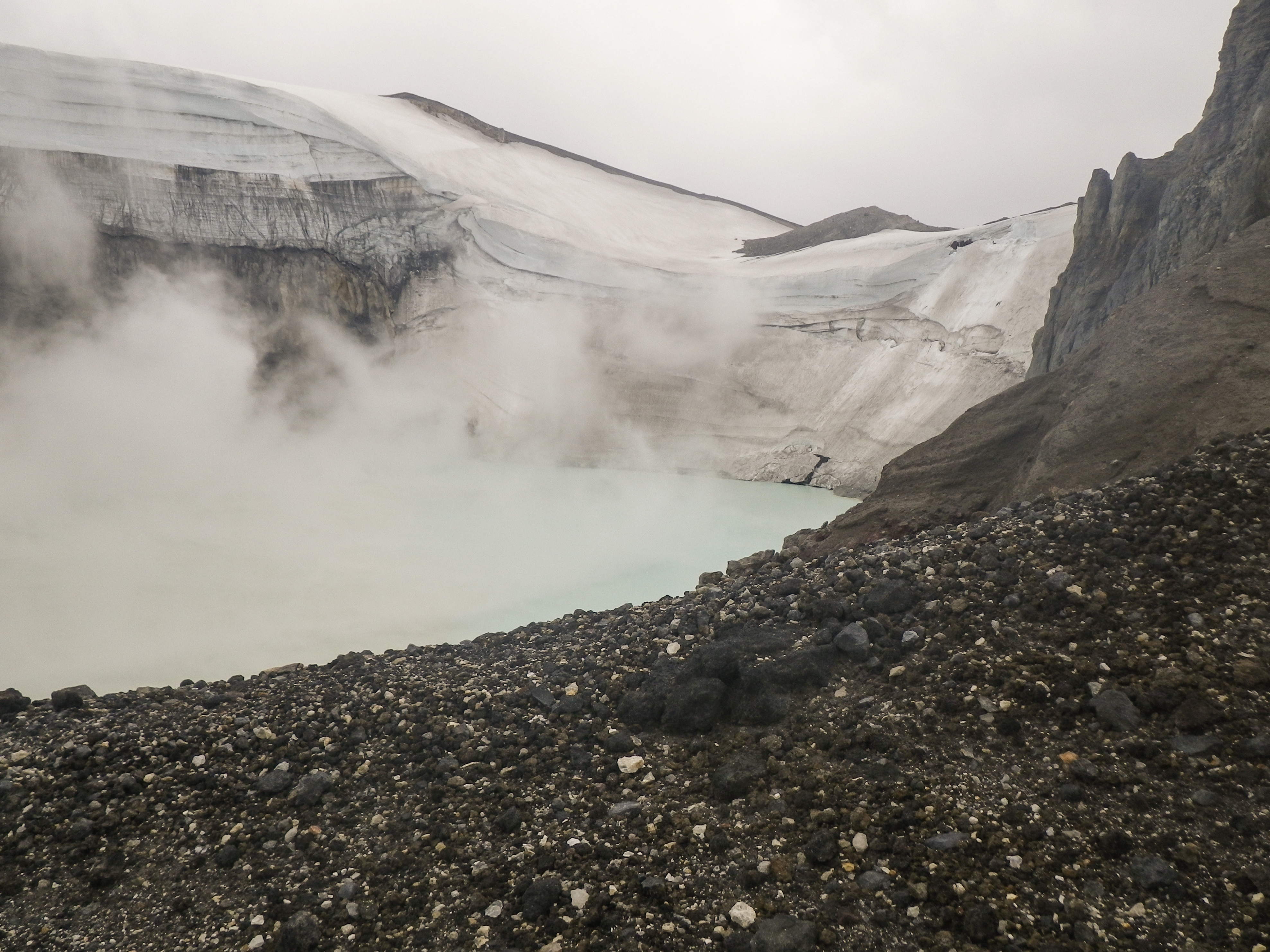 A picture of the crater lake at the top of Copahue Volcano, near the Chile-Argentina border.